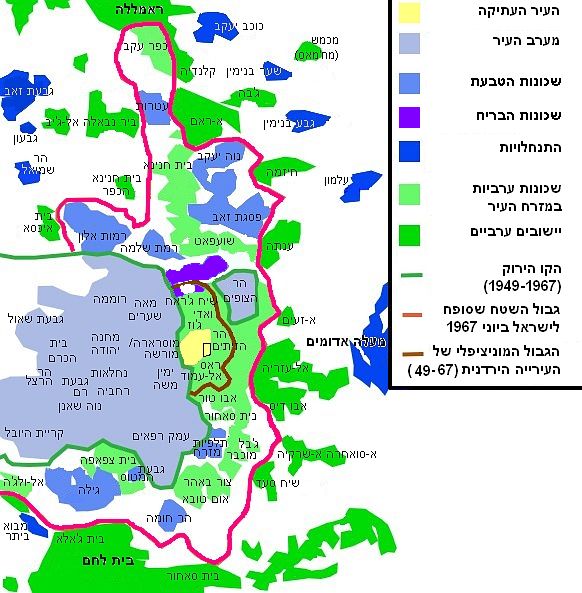 Map of East Jerusalem Old City West Jerusalem and Mount Scopus East Jerusalem, Jewish areas West Bank, Jewish areas East Jerusalem, Arab areas West Bank, Arab areas —1949 Armistice Line —East Jerusalem Boundary —Pre-1967 Municipality Boundary